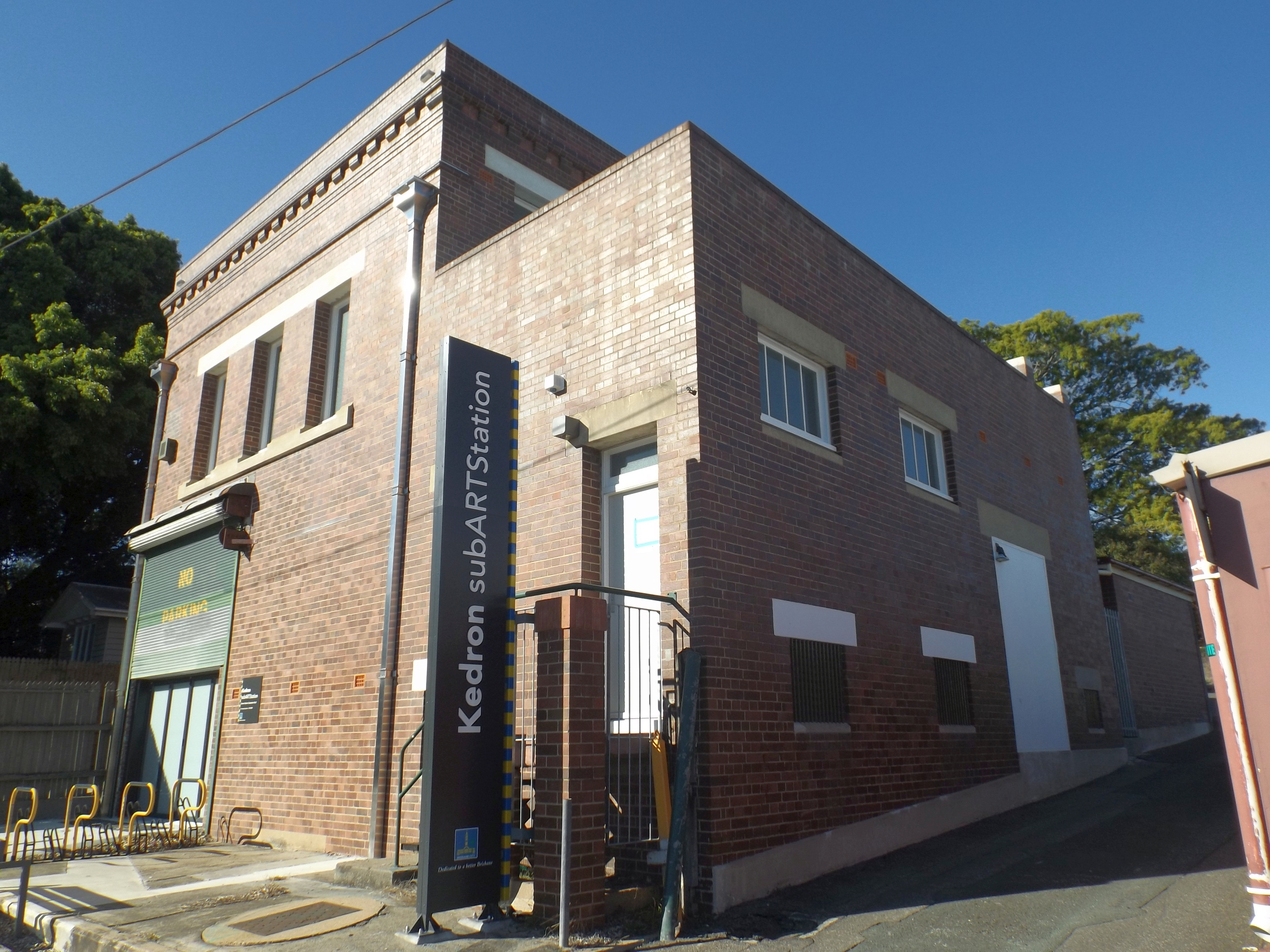 Photo of Brisbane City Council Tramways Substation No. 8 from footpath in Wooloowin, Brisbane, Queensland, Australia.